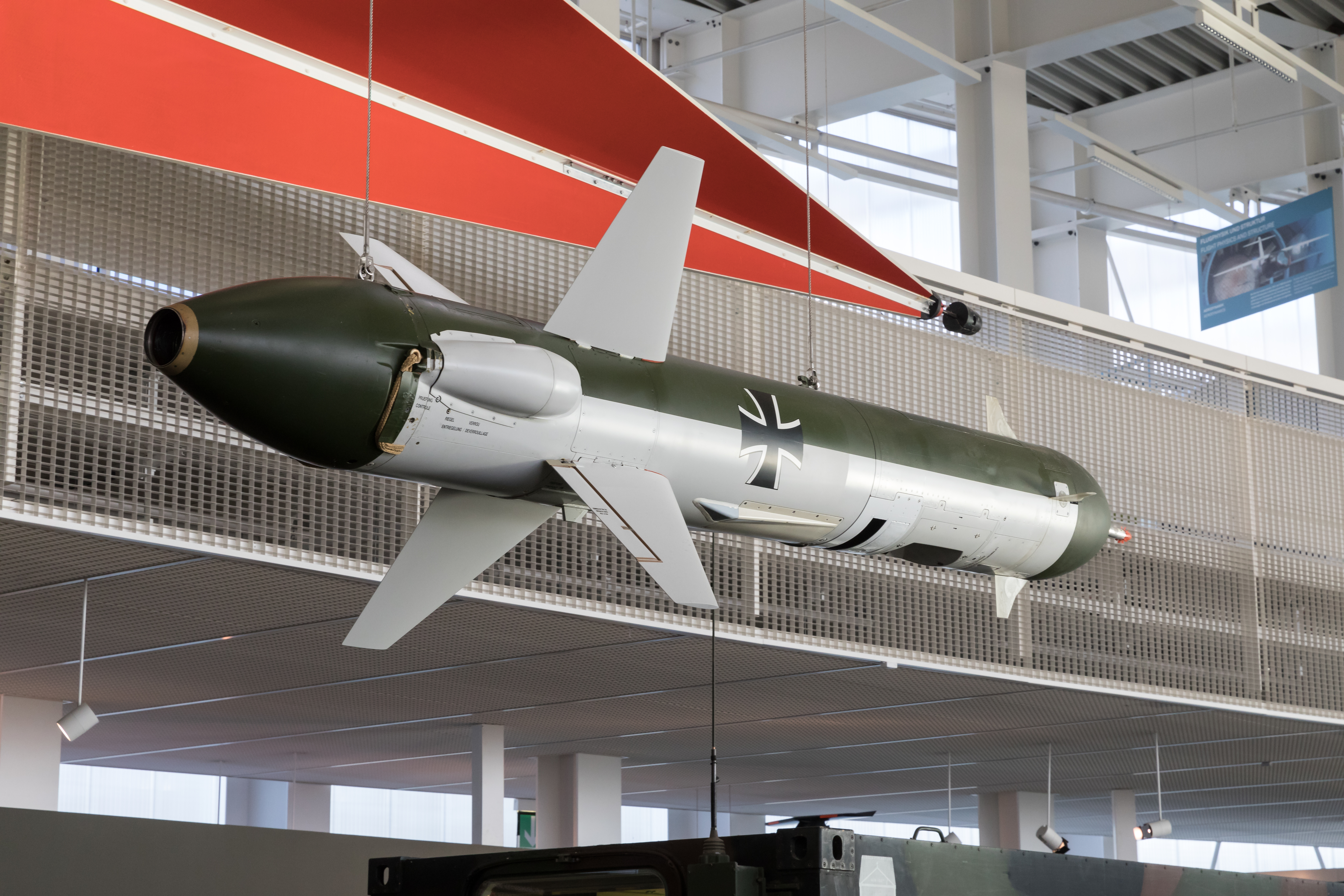 Canadair CL289 UAV at Dornier-Museum, Friedrichshafen